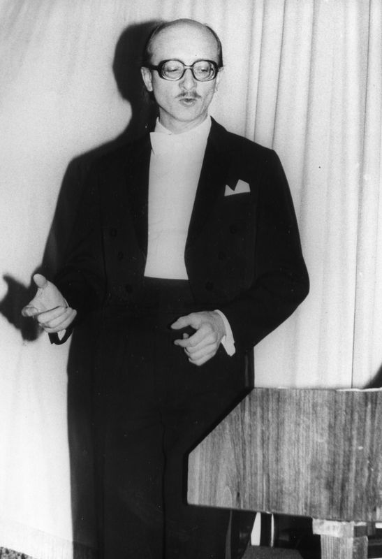 Aleksej Lubimov. Recital in Odessa,1984